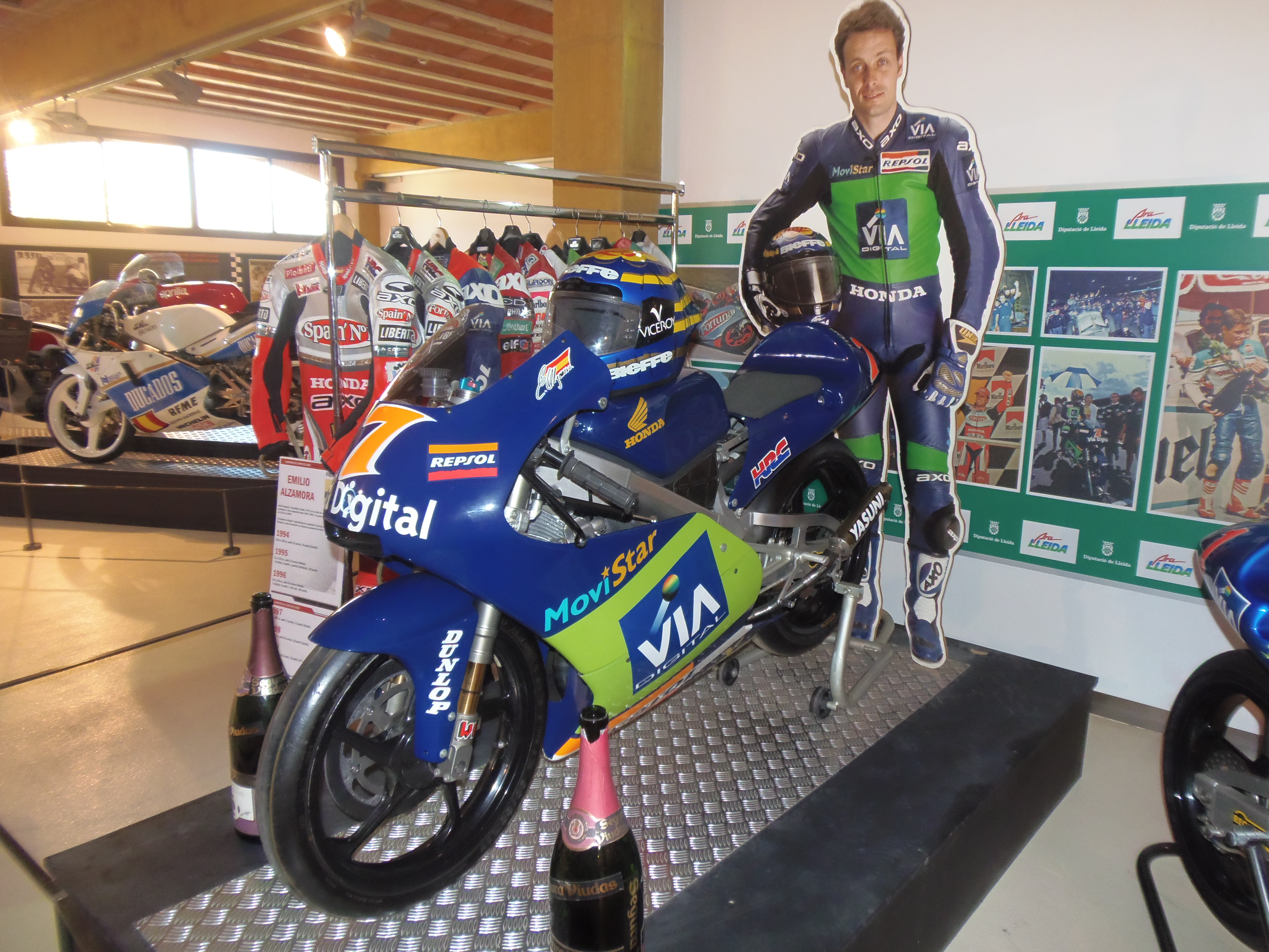 Honda 125. On this bike, Emilio Alzamora won the 125cc World Championship in 1999.